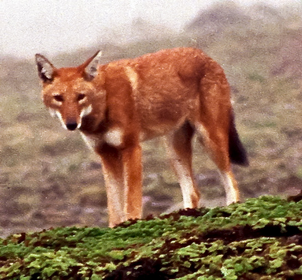 Ethiopian wolf, Bale Mountains, Ethiopia.